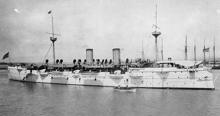 The Protected Cruiser USS Baltimore, Public domain photo from history.navy.mil Removed caption read: Photo # NH 61697 USS Baltimore anchored stern to the reef at Honolulu, circa 1897-1898